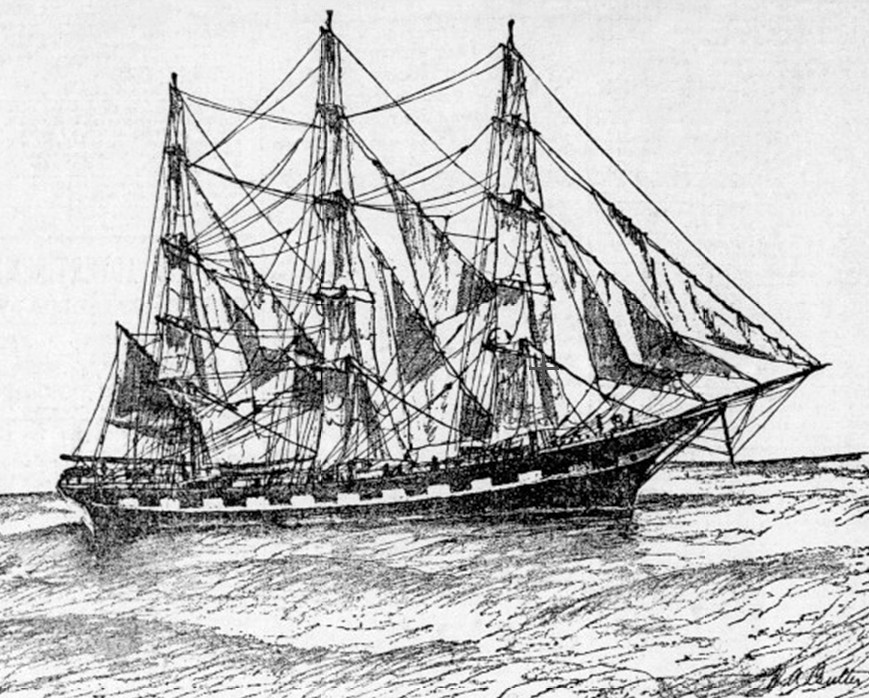 Sketch of the clipper Ravenscrag from an 1898 edition of the San Francisco Call - this ship in 1879 delivered 419 Portuguese immigrants to the Hawaiian Islands